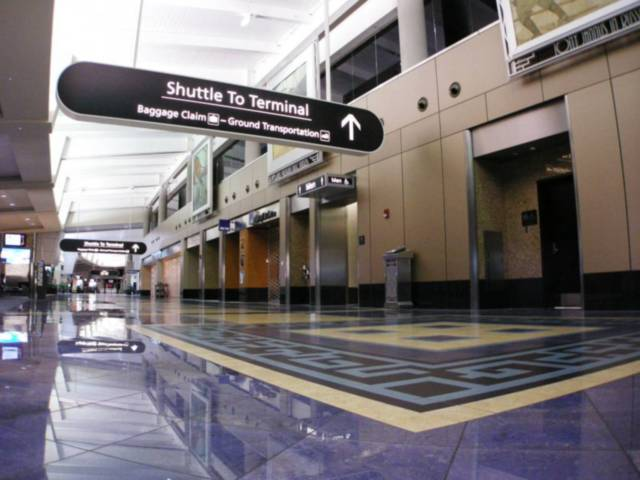 72 dpi 640x480